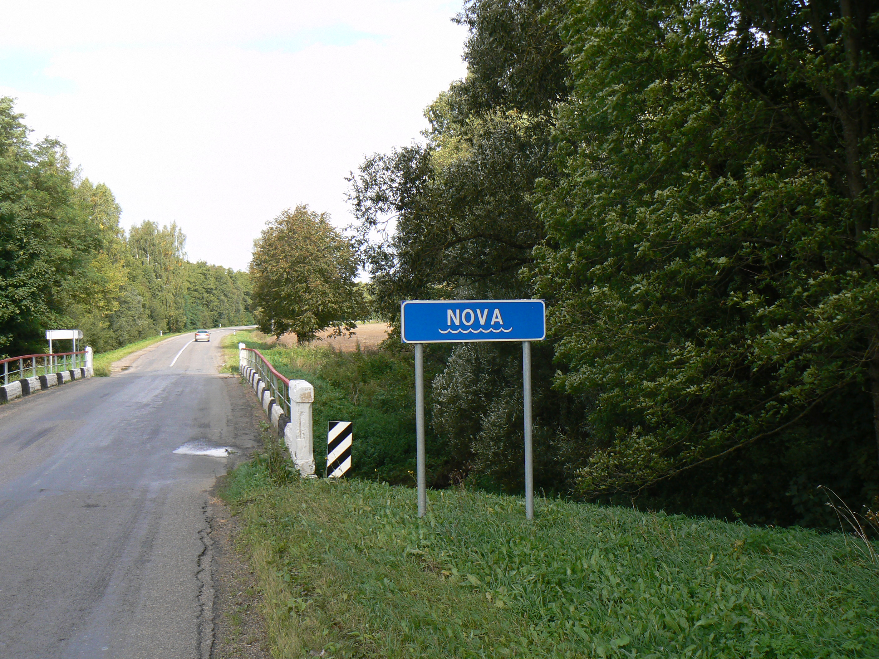 Bridge on river Nova (Lithuania).